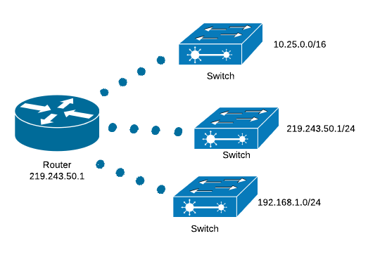 a network with switches